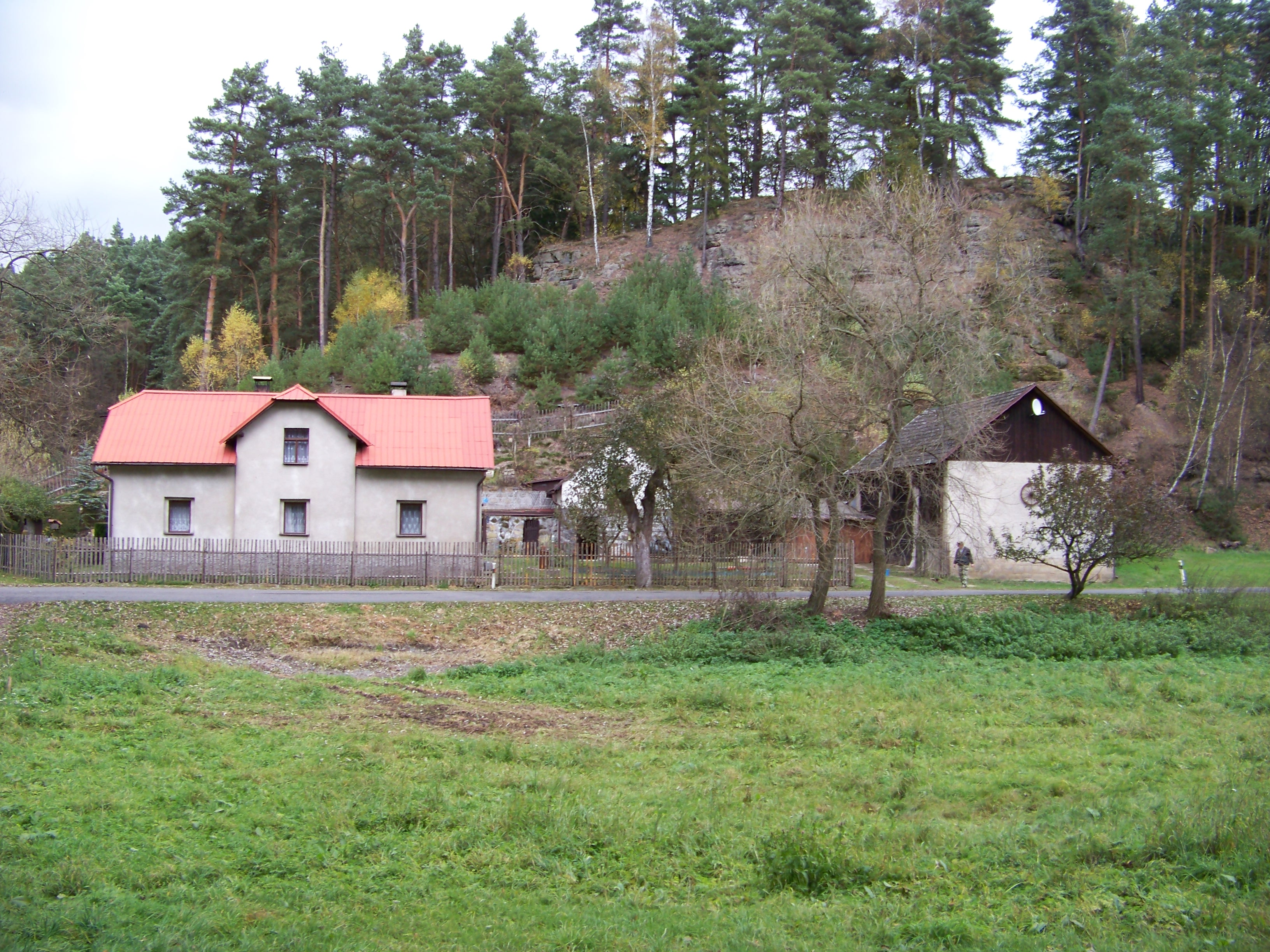 Nosálov-Brusné 1.díl, Mělník District, Central Bohemian Region, the Czech Republic. A house No 14 near the road No 25929.